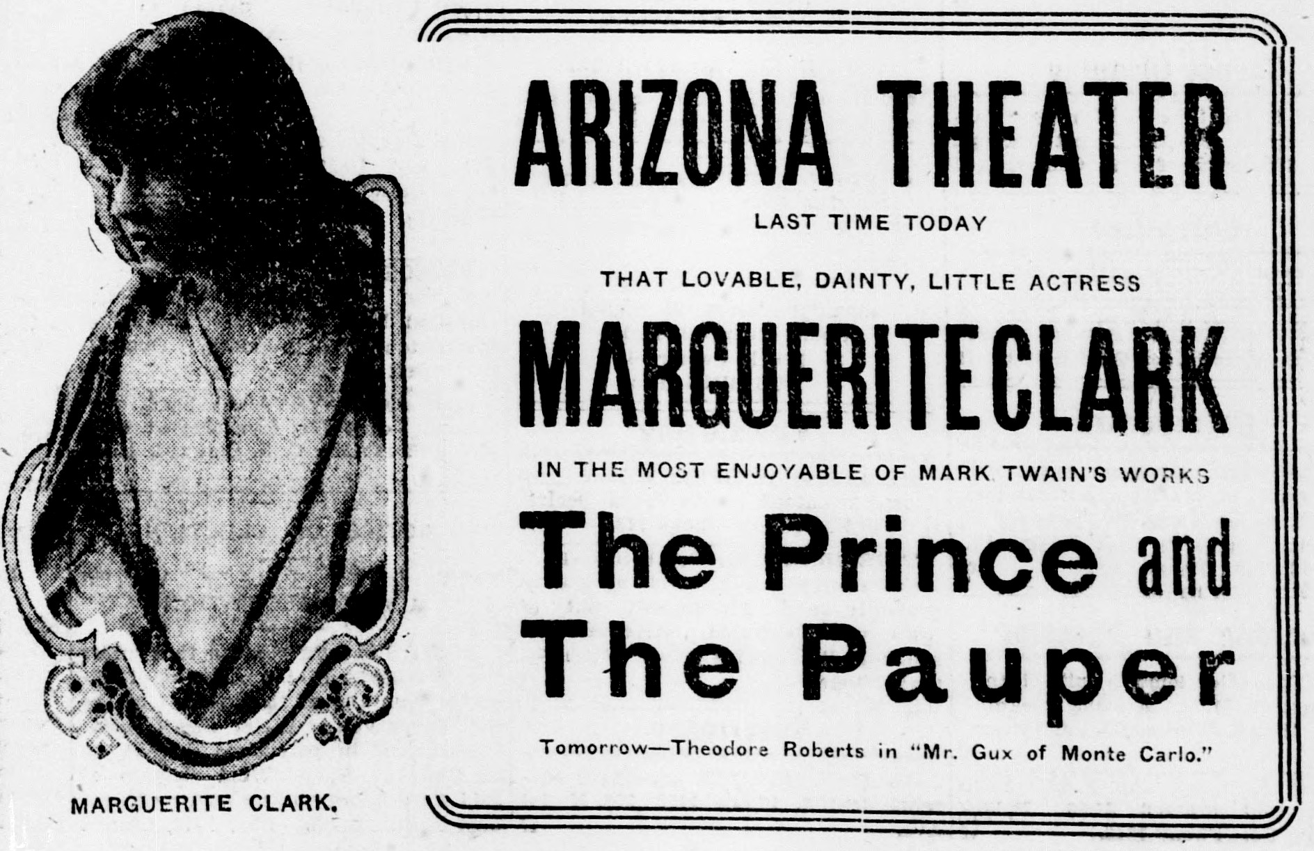 The Prince and the Pauper advert